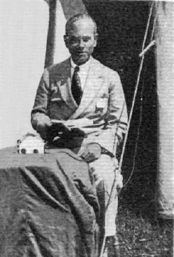 A.V. Roe, 1930.